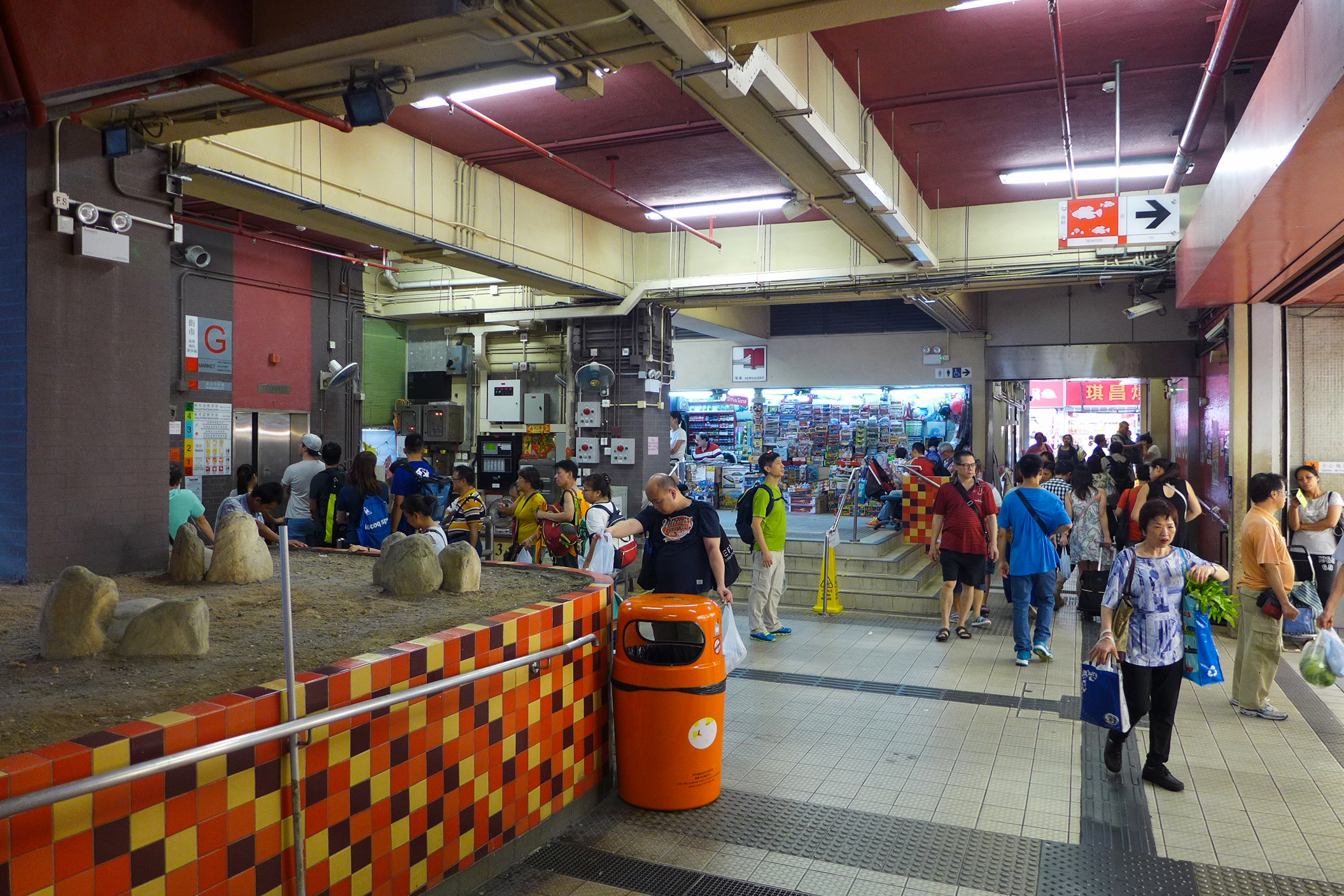 Yeung Uk Road Municipal Services Building